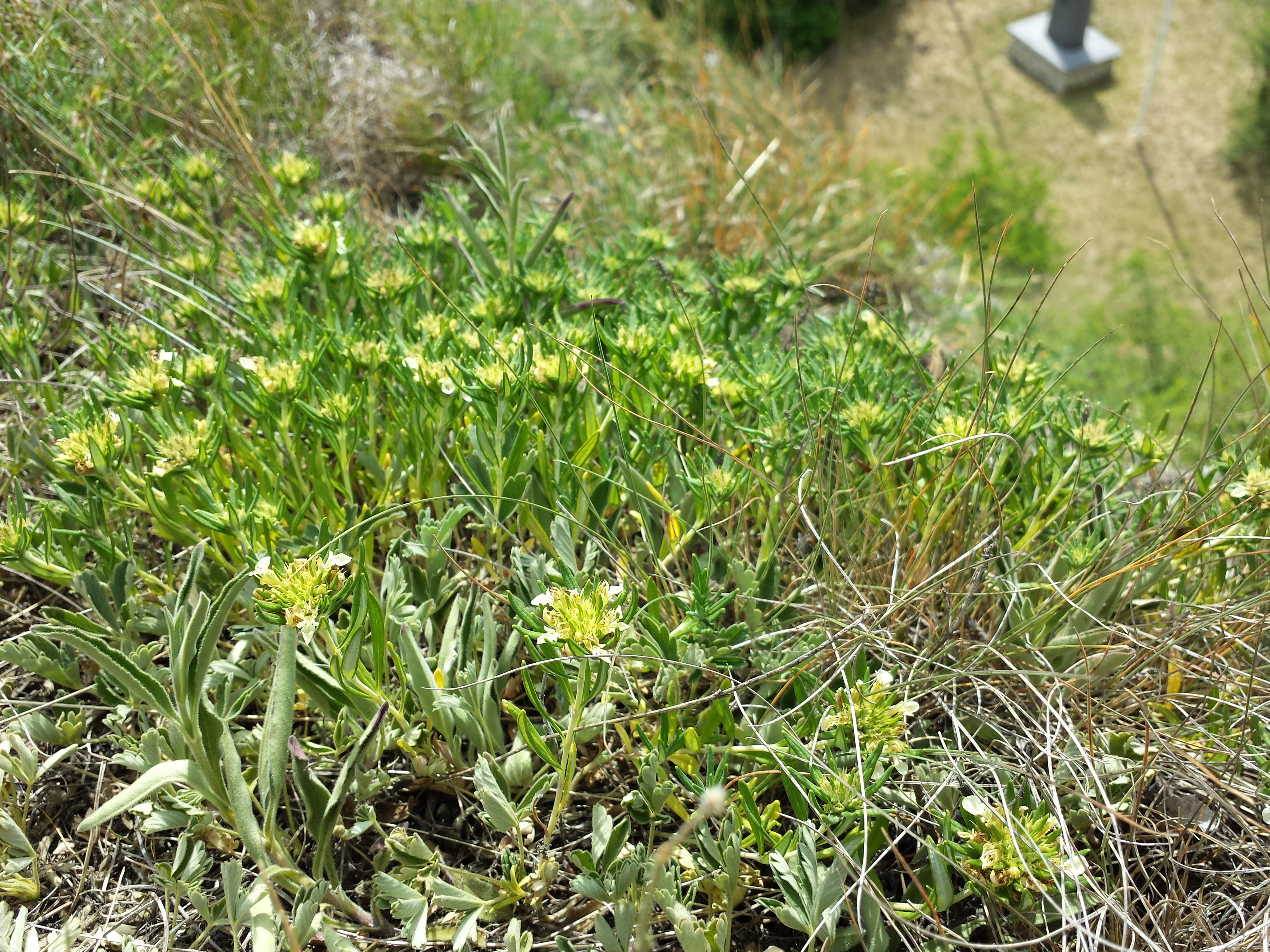 Habitus Taxon: Teucrium montanum (sensu Fischer et al. EfÖLS 2008 ISBN 978-3-85474-187-9; det. M. A. Fischer 2014-06-14) Location: Schweinbarther Berg, district Mistelbach, Lower Austria - ca. 330 m a.s.l. Habitat: rock steppe (lime stone)